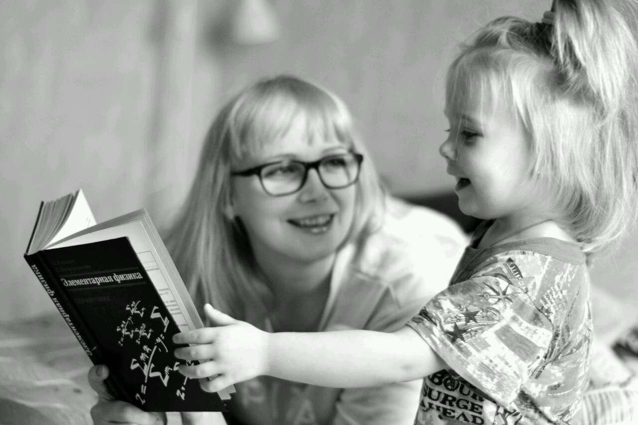 science does not have the age